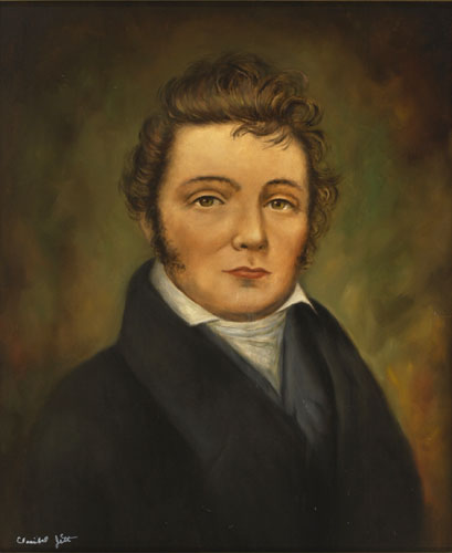 Robert R. Reid, 4th territorial Governor of Florida (cropped from original JPEG and saved as PNG to prevent loss of quality)